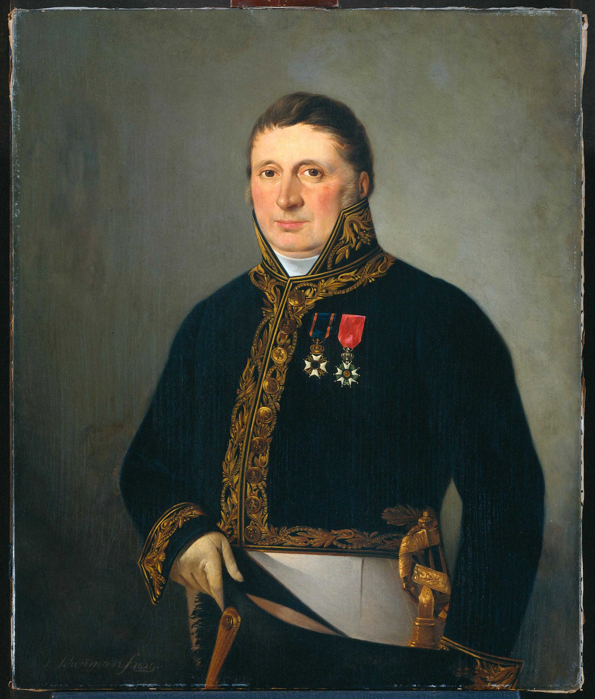 Portret van inspecteur-generaal A.F. Goudriaan